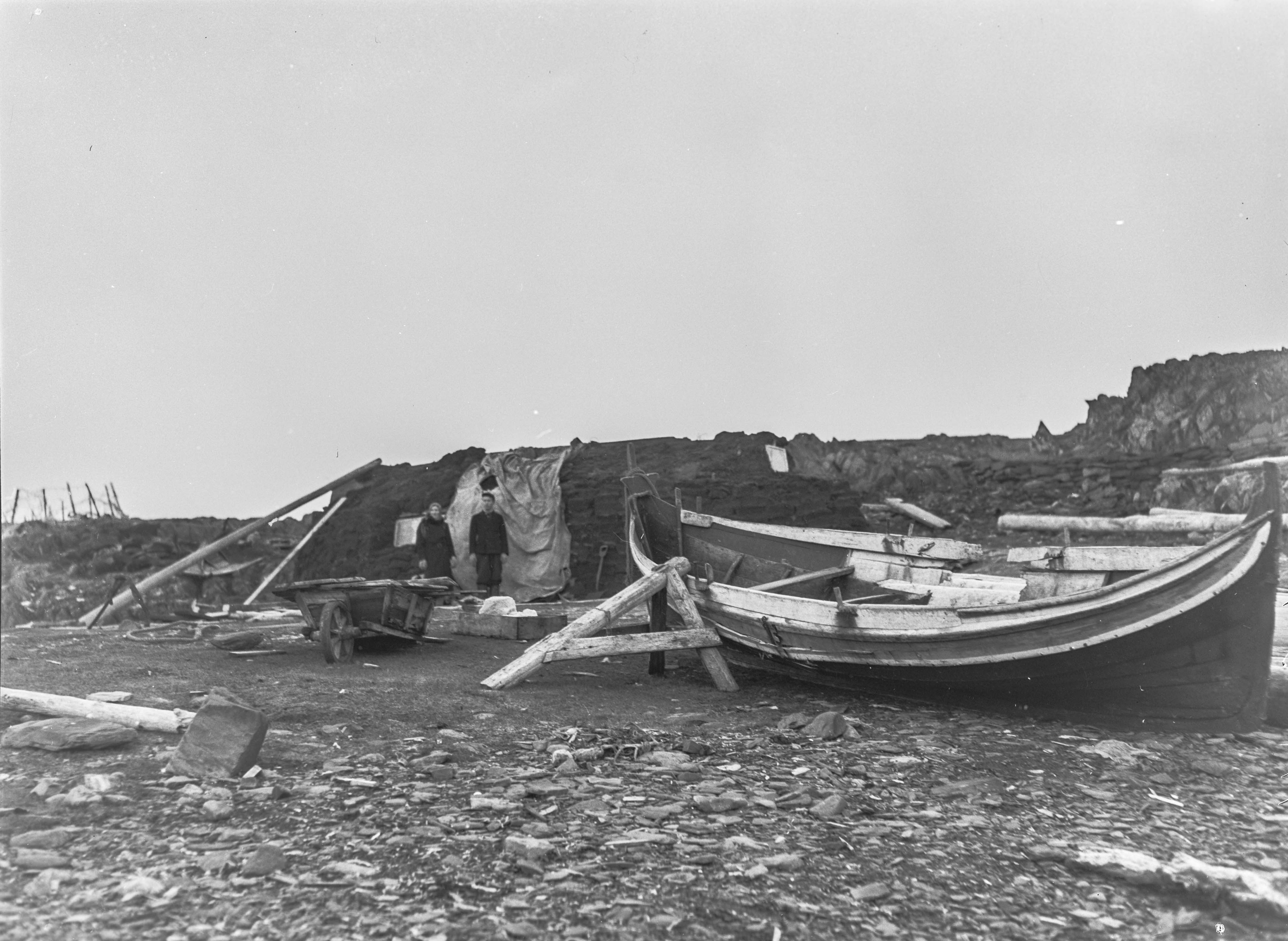 Photos from Flickr album "Evakueringen og frigjøringen av Finnmark" (The Evacuation and Liberation of Finnmark) by Riksarkivet (National Archives of Norway 2015). Towards the end of World War II, with Operation Nordlicht, the Germans used the scorched earth tactic in Finnmark and northern Troms to halt the Red Army. As a consequence of this, few houses survived the war, and a large part of the population was forcefully evacuated further south (Tromsø was crowded), but many people avoided evacuation by hiding in caves and mountain huts and waited until the Germans were gone, then inspected their burned homes. There were 11,000 houses, 4,700 cow sheds, 106 schools, 27 churches, and 21 hospitals burned. There were 22,000 communications lines destroyed, roads were blown up, boats destroyed, animals killed, and 1,000 children separated from their parents. However, after taking the town of Kirkenes on 25 October 1944 (as the first town in Norway), the Red Army did not attempt further offensives in Norway. The town was handed over to Norway as the war ended. When war was over, more than 70,000 people were left homeless in Finnmark. The government imposed a temporary ban on residents returning to Finnmark because of the danger of landmines. The ban lasted until the summer of 1945 when evacuees were told that they could finally return home.